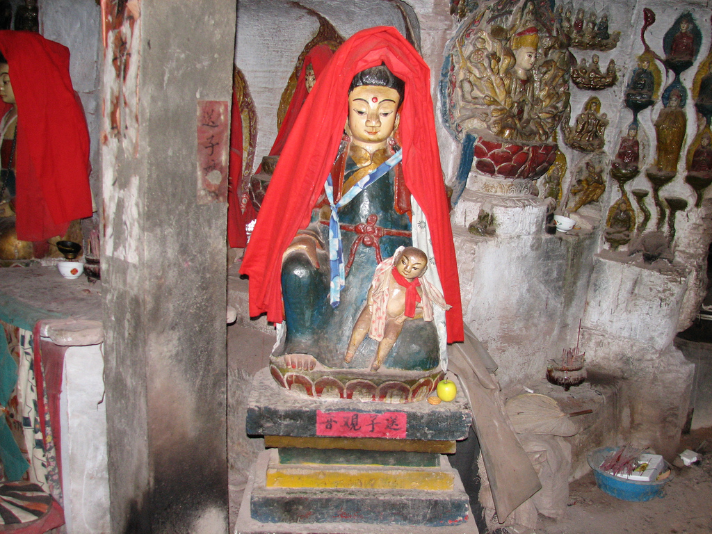 The statue of "The Guanyin Who Sends Children" in a temple in the small town of Danshan, Sichuan. Photographed in September 2005. The temple was built about 2000.